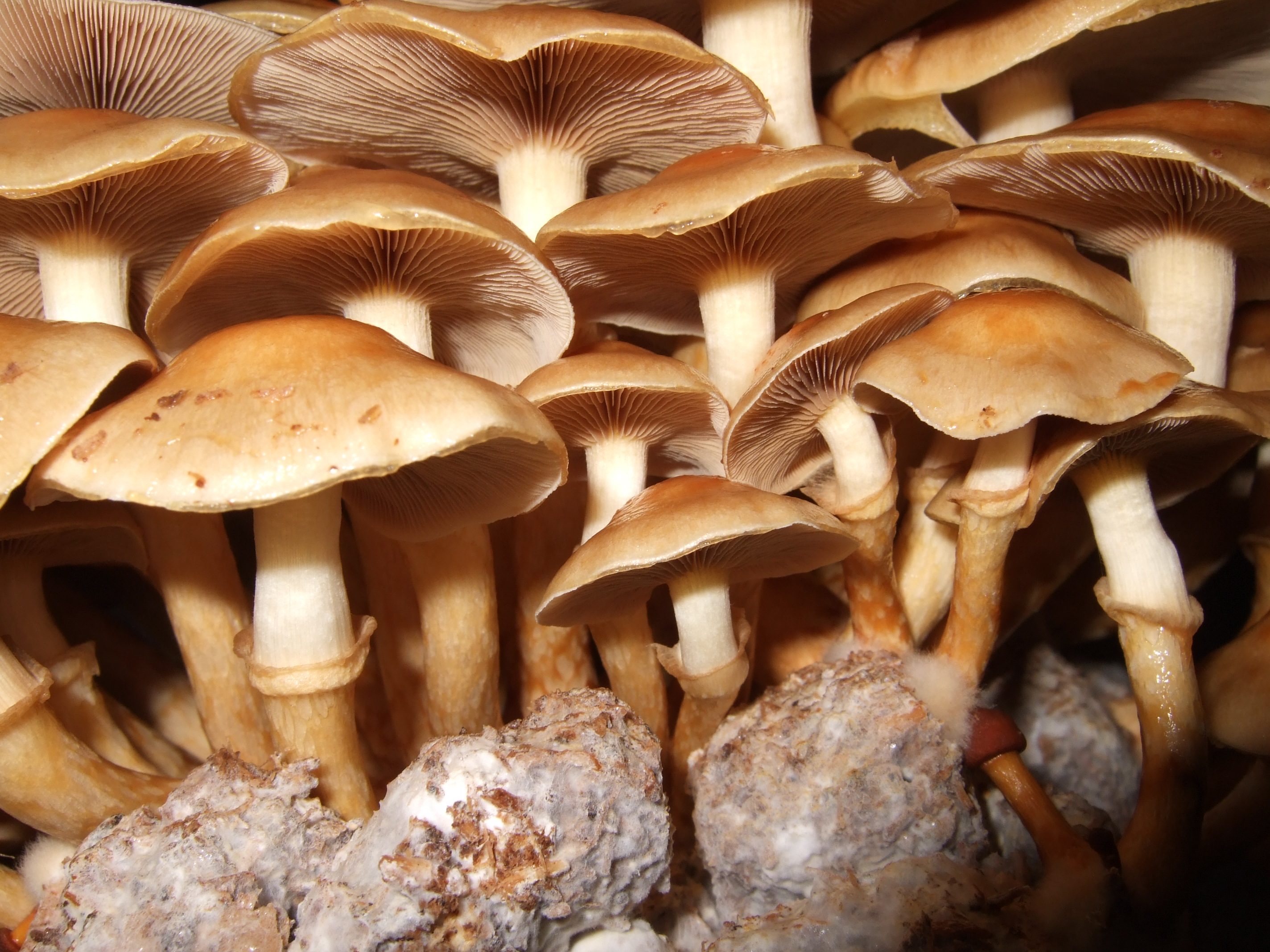 Nameko (Pholiota nameko)